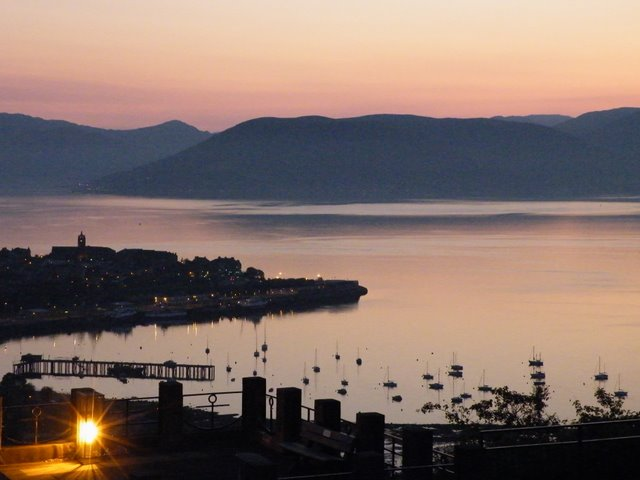 Gourock and the Firth of Clyde With the Argyll hills in the background and part of the Free French War Memorial on Lyle Hill in the foreground.